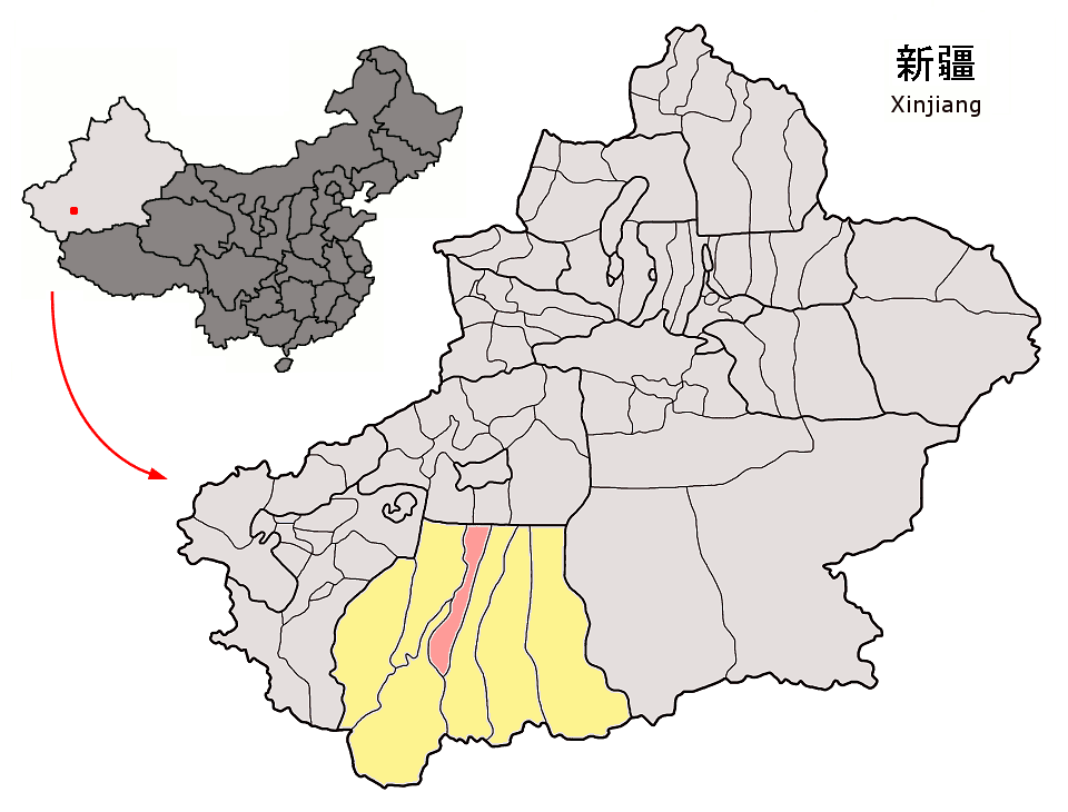 Location of Lop County (pink) and Hotan Prefecture (yellow) within Xinjiang autonomous region of China Map drawn in september 2007 using various sources, mainly : Xinjiang Uygur autonomous region administrative regions GIS data: 1:1M, County level, 1990 Xinjiang Counties map from